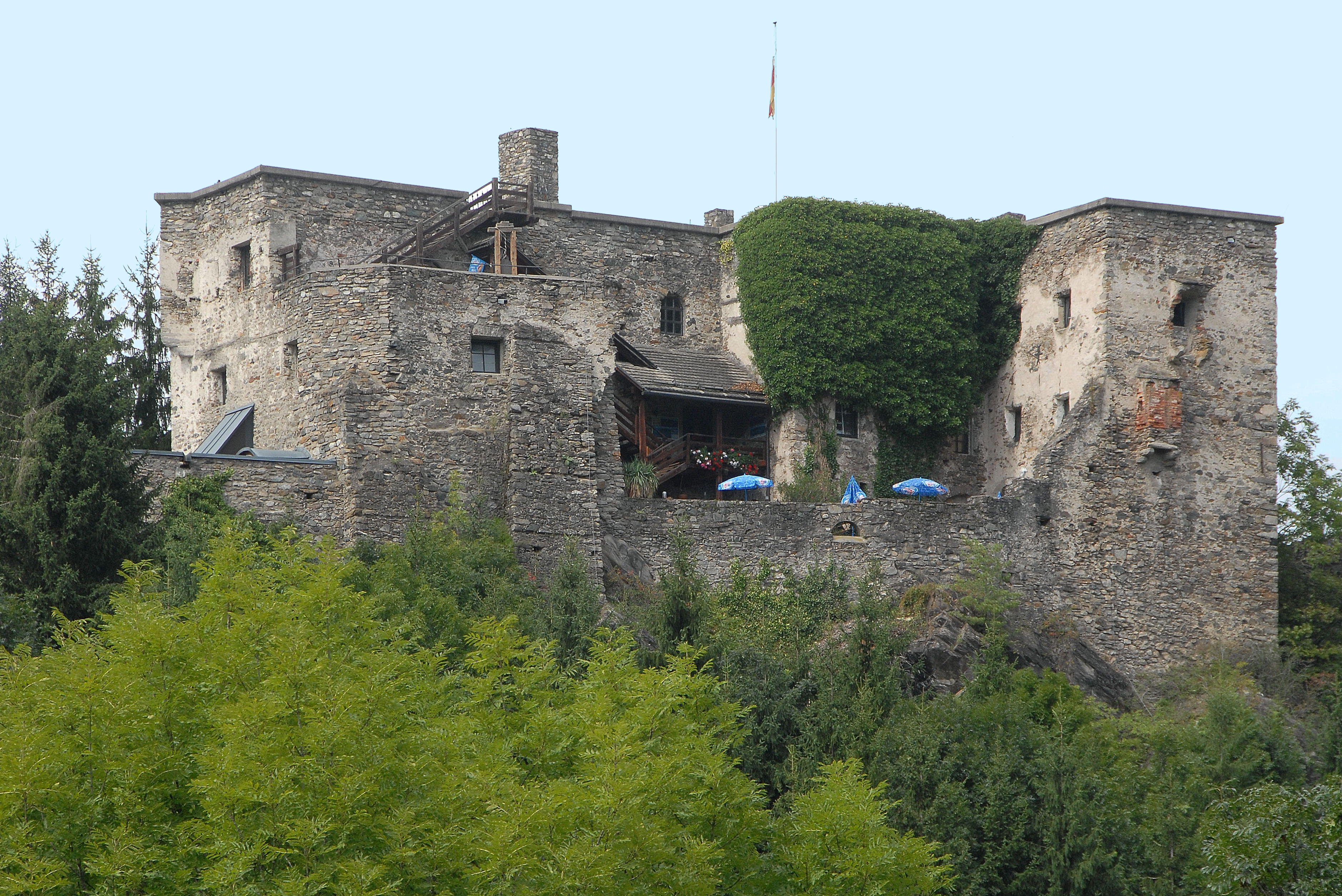 Castle Sommeregg at Treffling in the community Seeboden, district Spittal on the Drau, Carinthia, Austria.